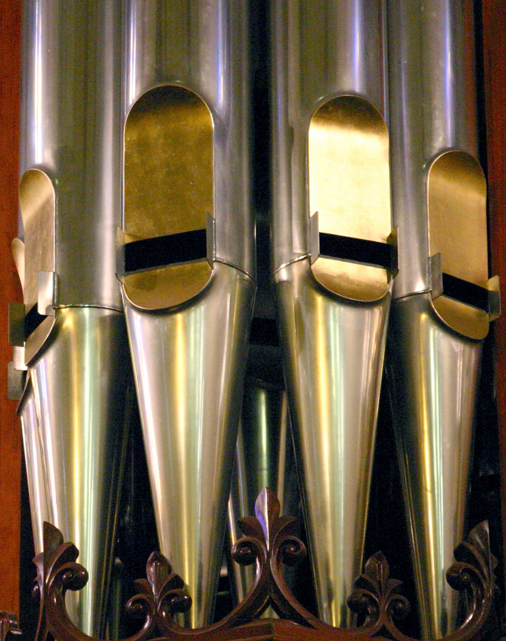 Organ pipes with bronze patina on the mouth